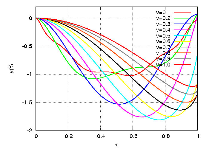 mass trajectories